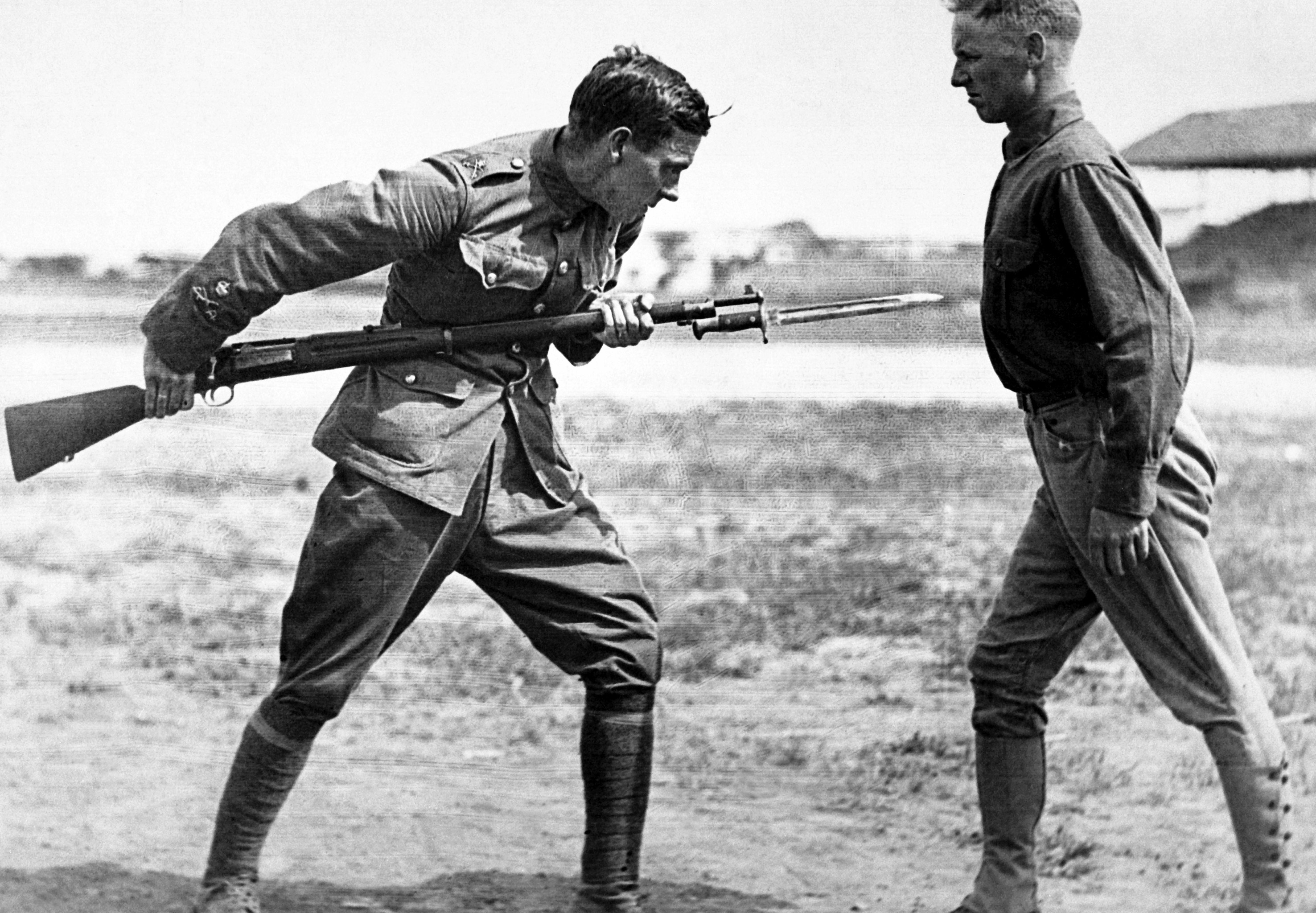 A picture of bayonet training.